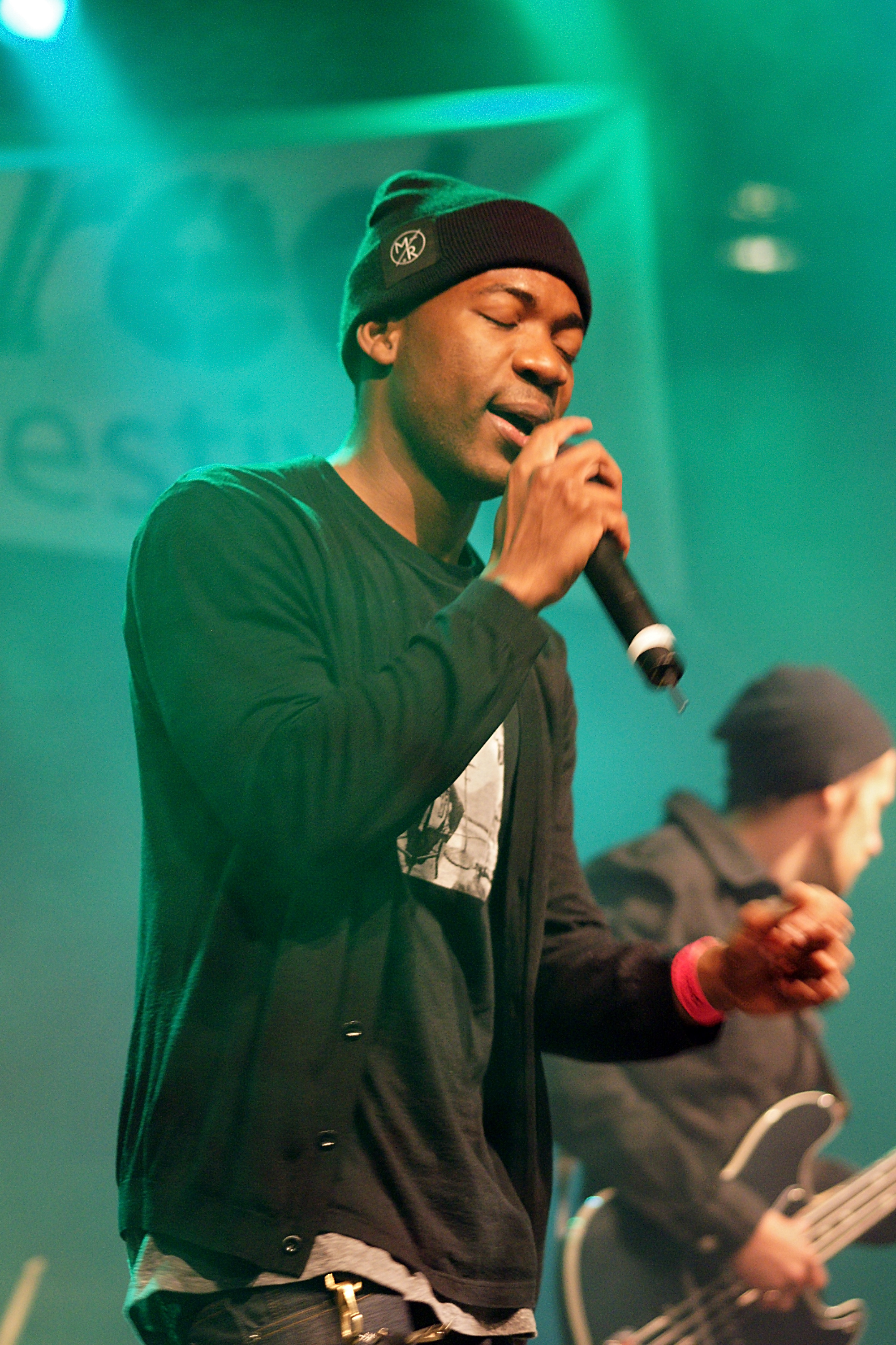 Gracias performing at Eurofestival, Turku, Finland.